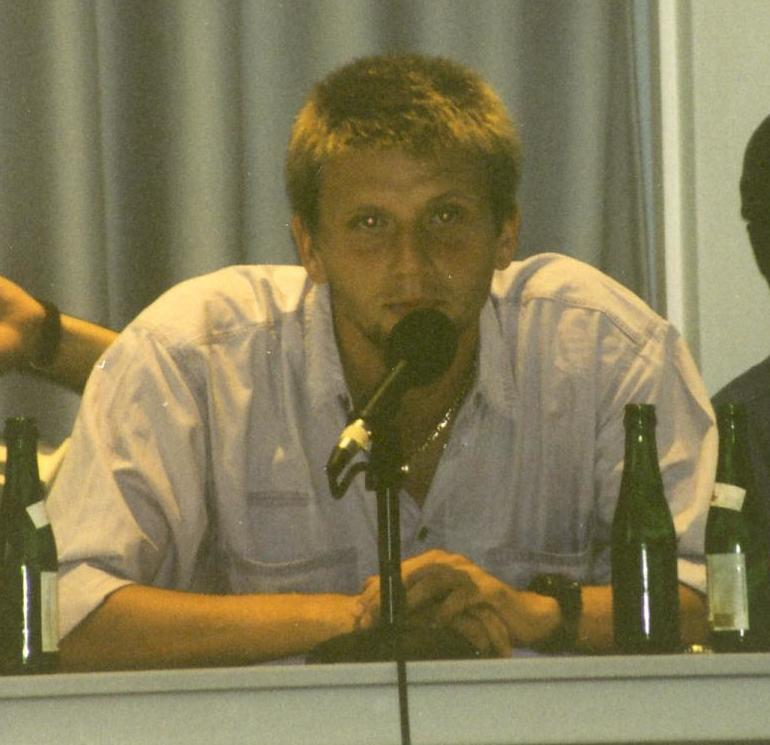 Stephan Hanke in the season 1997/98 as Player of FC St. Pauli